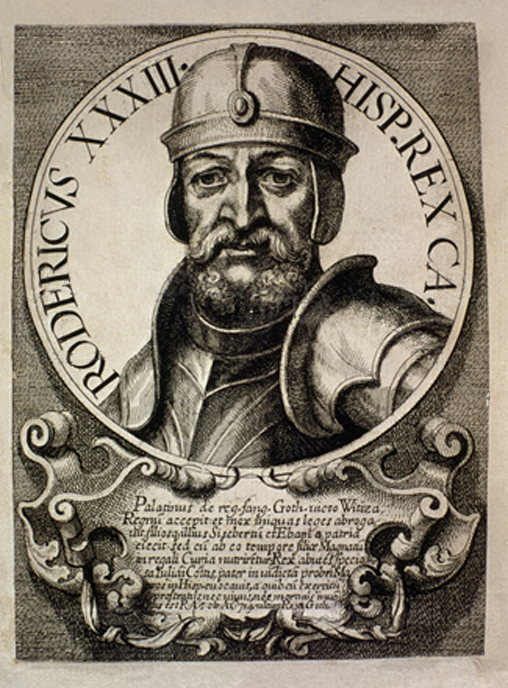 Visigoths kings of Hispania. Engraving of Don Rodrigo the last visigoth king (710 - 711)